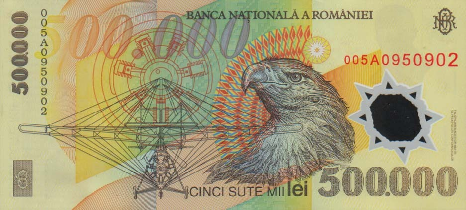 500 000 Romanian leu from 2000 - reverse